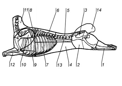 1, 12. զինգ; 2-3. կոնքազդրային կտոր; 4. փորամիս; 5-6, 13. մեջքամիս; 7. կողաճաղեր; 8-10. երբուծ; 11. վիզ; 14. դմակ